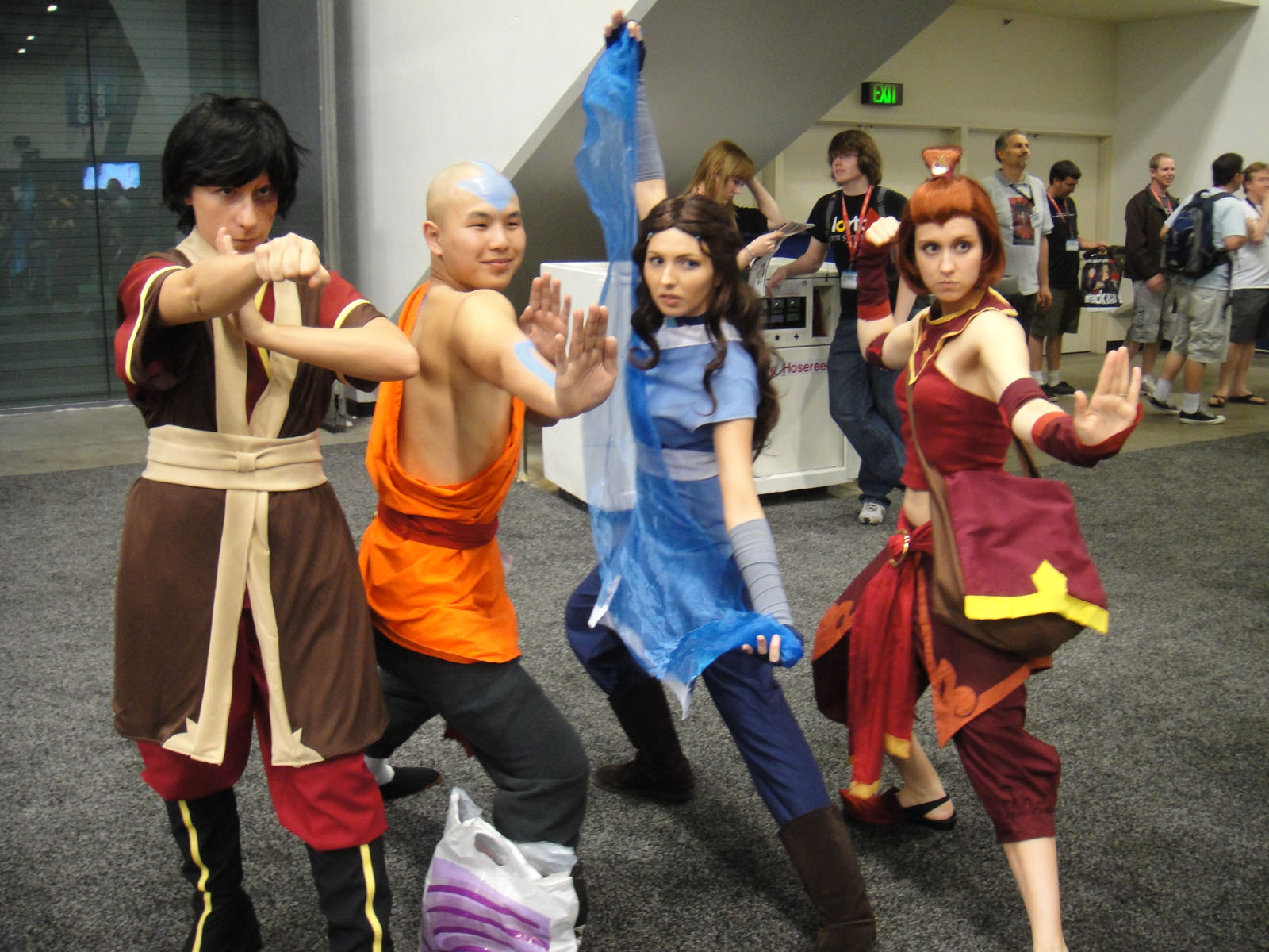 WonderCon 2011 - the Last Airbender costumes